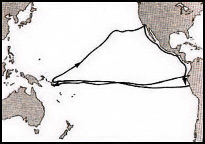 Voyages of Alvaro de Mendana